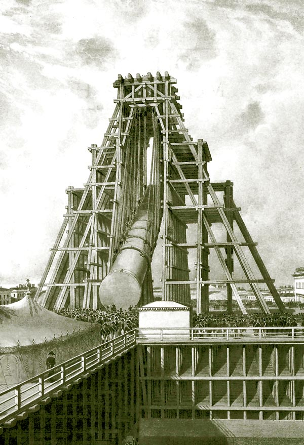 Raising St.Isaacs Columns by Auguste de Montferrand